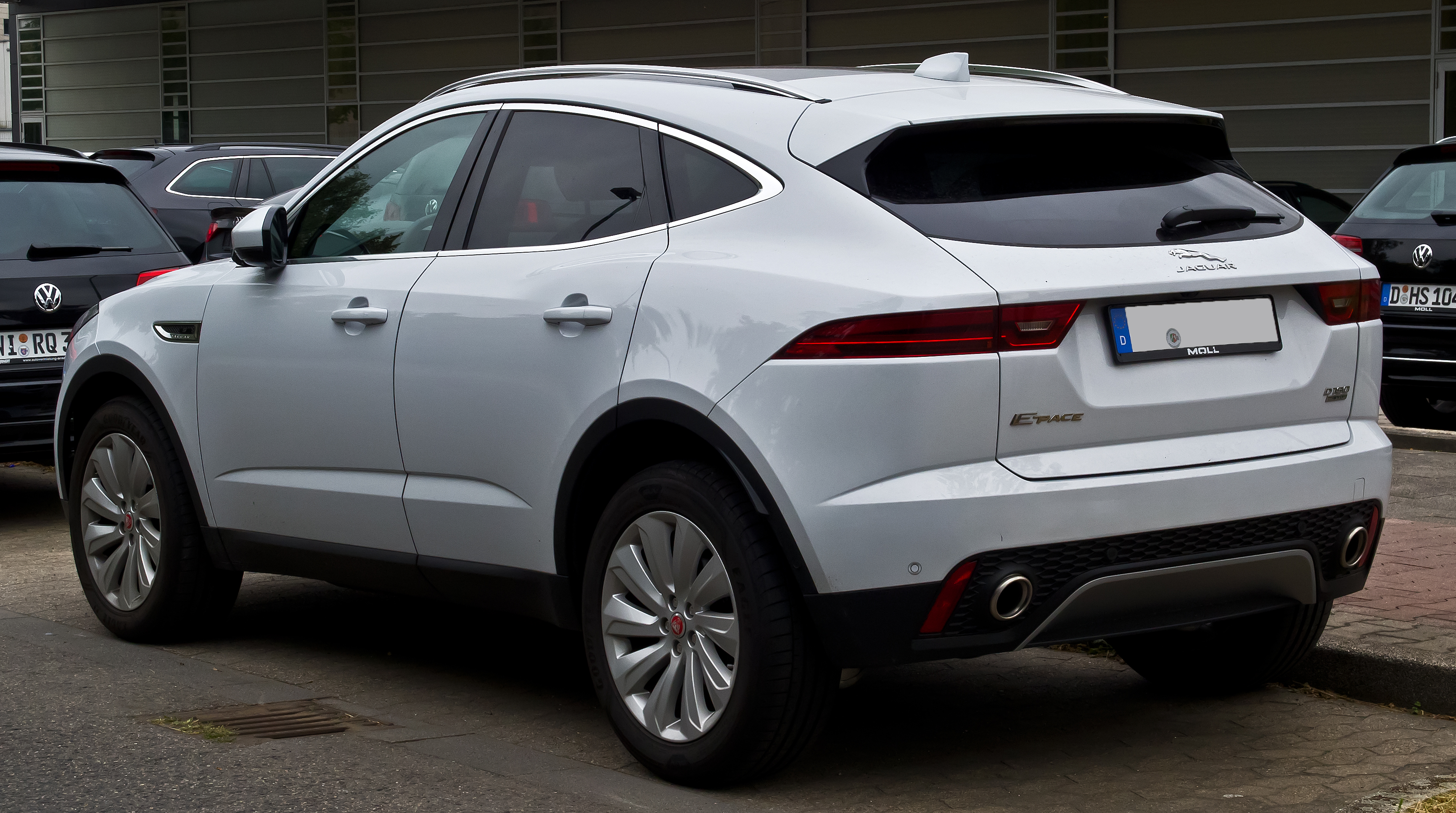 Jaguar E-Pace D180 AWD S